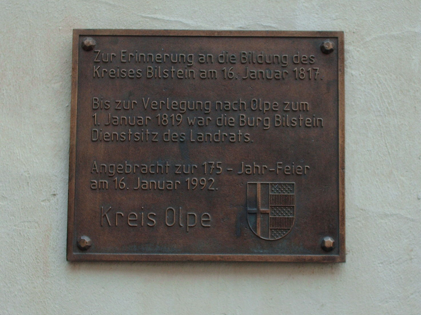 Plaque at Bilstein Castle, Lennestadt, Germany check usage